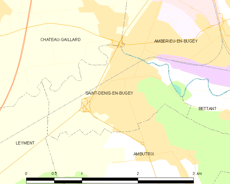 Map of French commune: Saint-Denis-en-Bugey Map commune FR insee code 01345.png